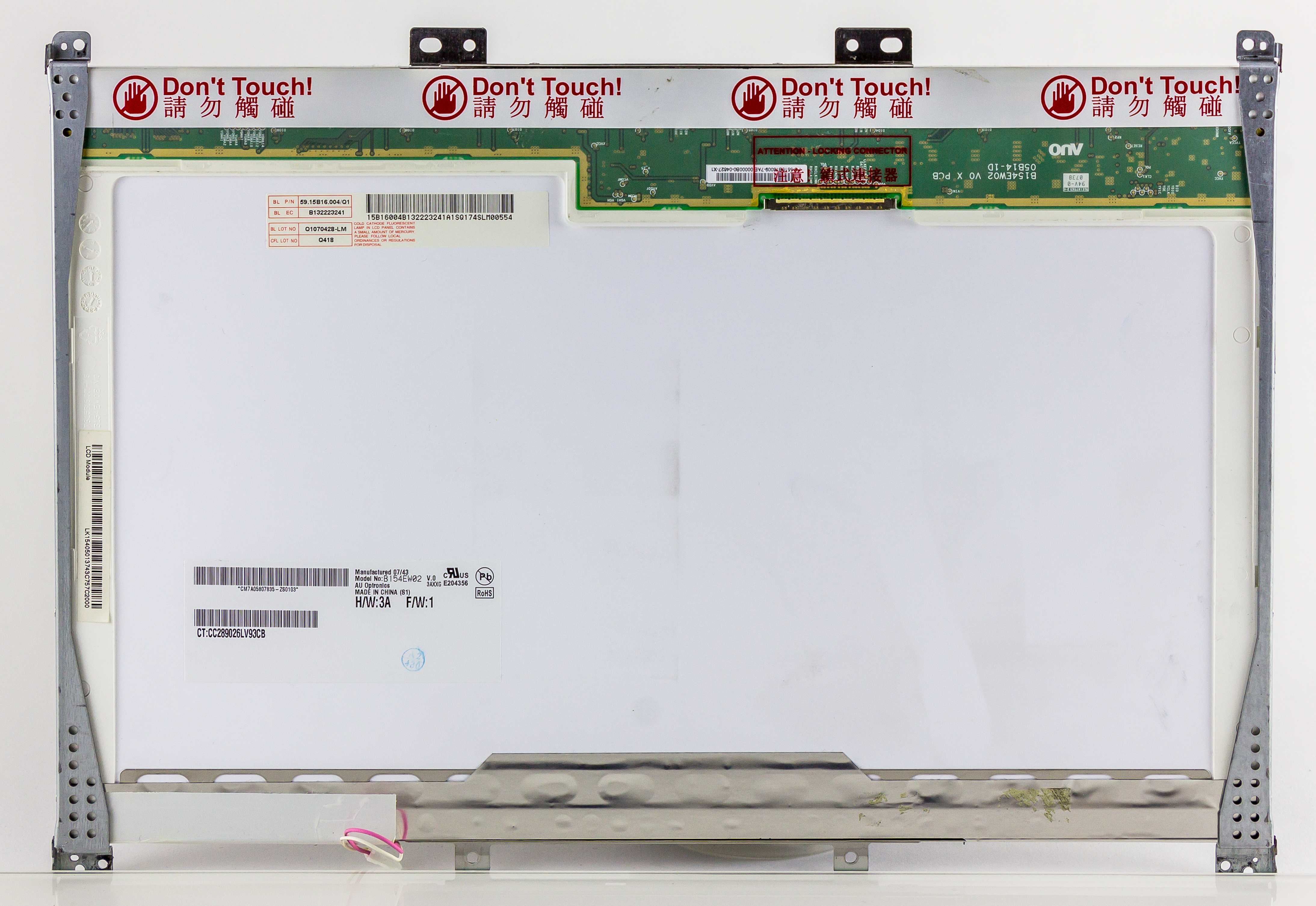 Acer Extensa 5220 - AU Optronics B154EW02 - Color Active Matrix Liquid Crystal Display composed of a TFT LCD panel, a driver circuit, and backlight system.